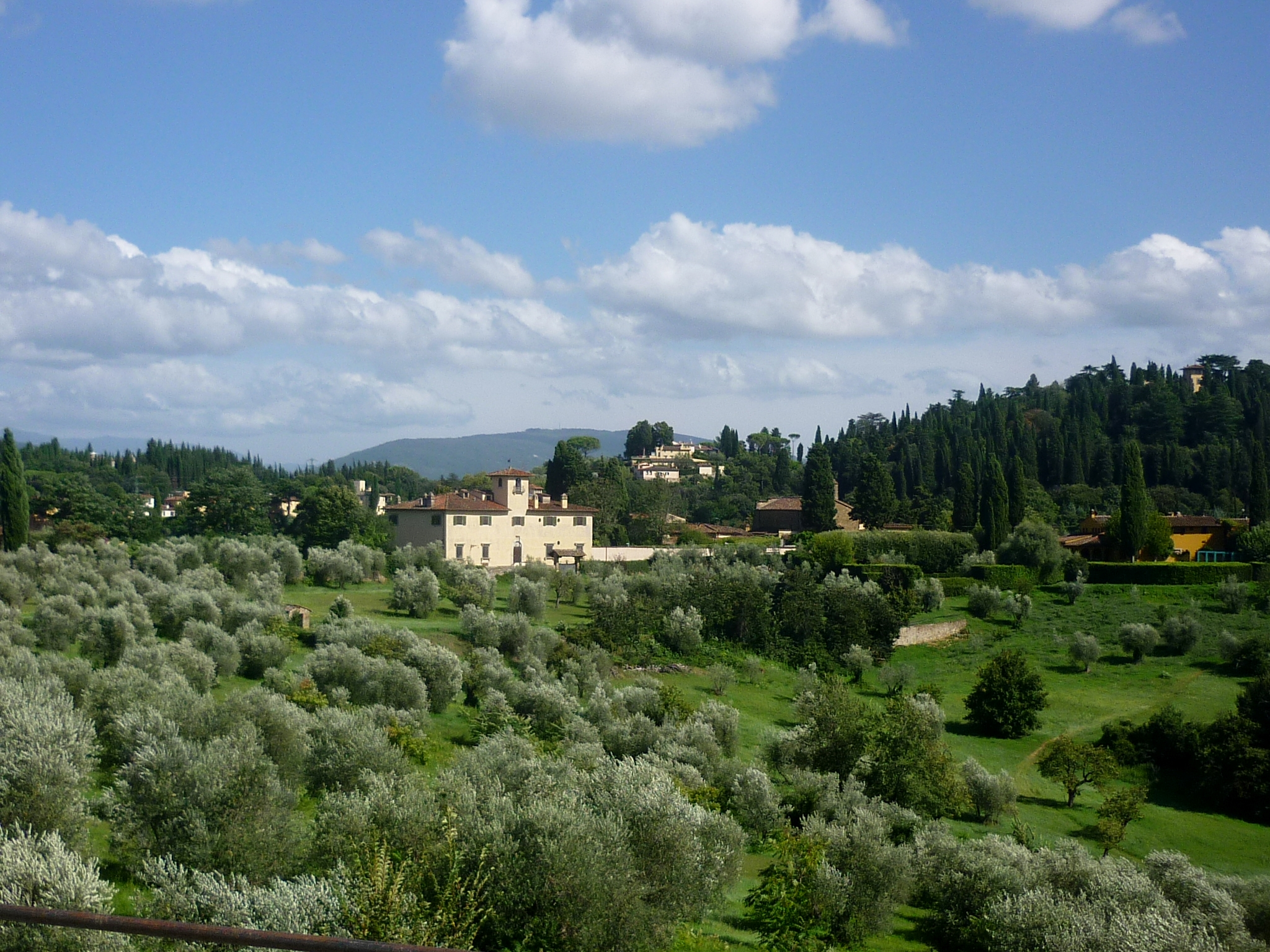 Chianti hills, Tuscany